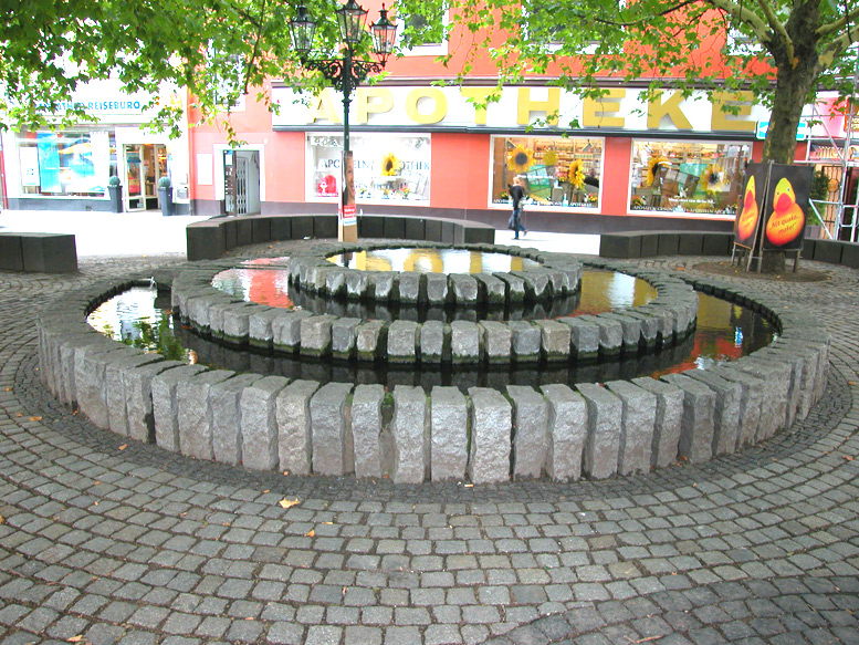 Benrather Marktplatz, Düsseldorf, Germany